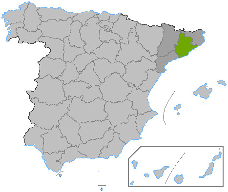 Location of Barcelona province